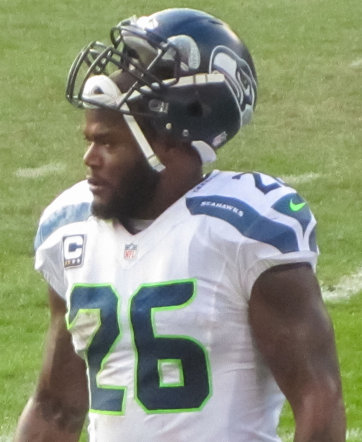 Seattle Seahawks fullback Michael Robinson at Soldier Field, Chicago, 2012